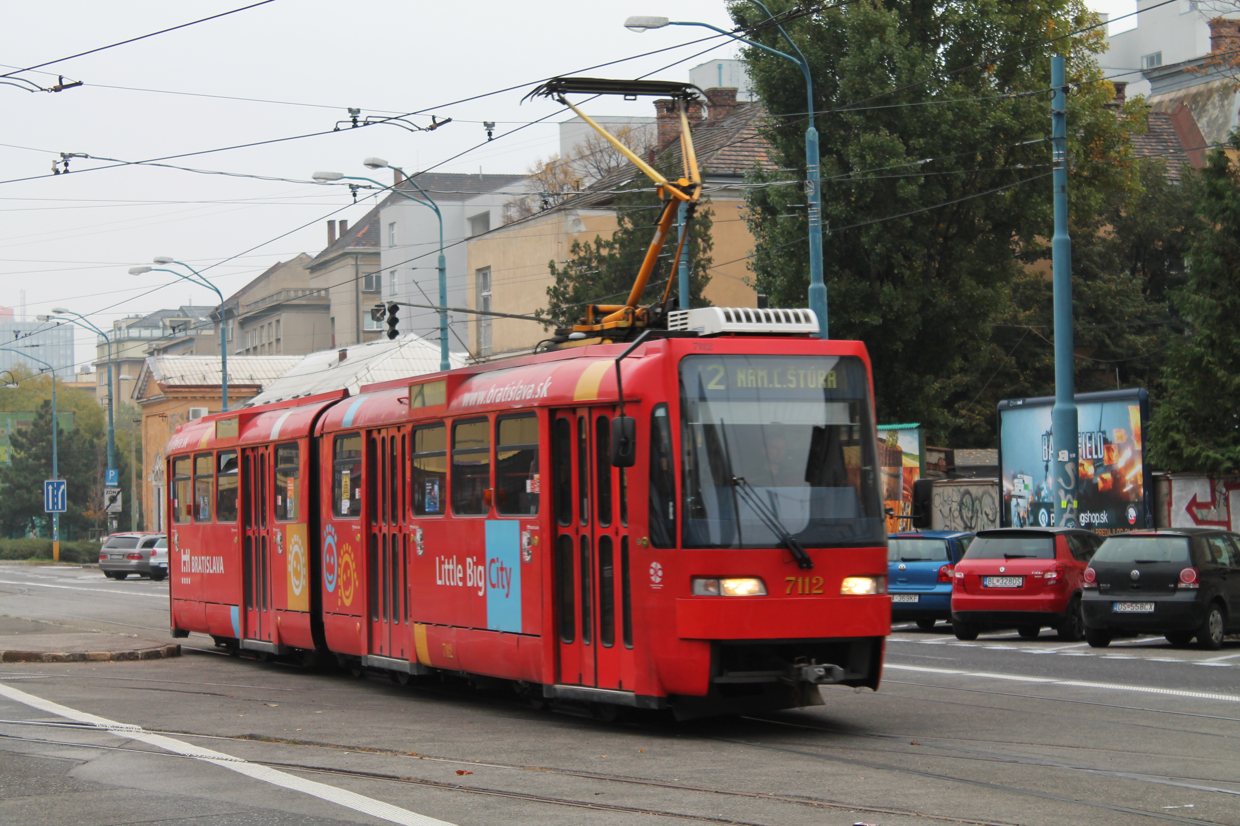 Tatra K2S No. 7112 tram of Dopravný podnik Bratislava, Bratislava, Slovakia